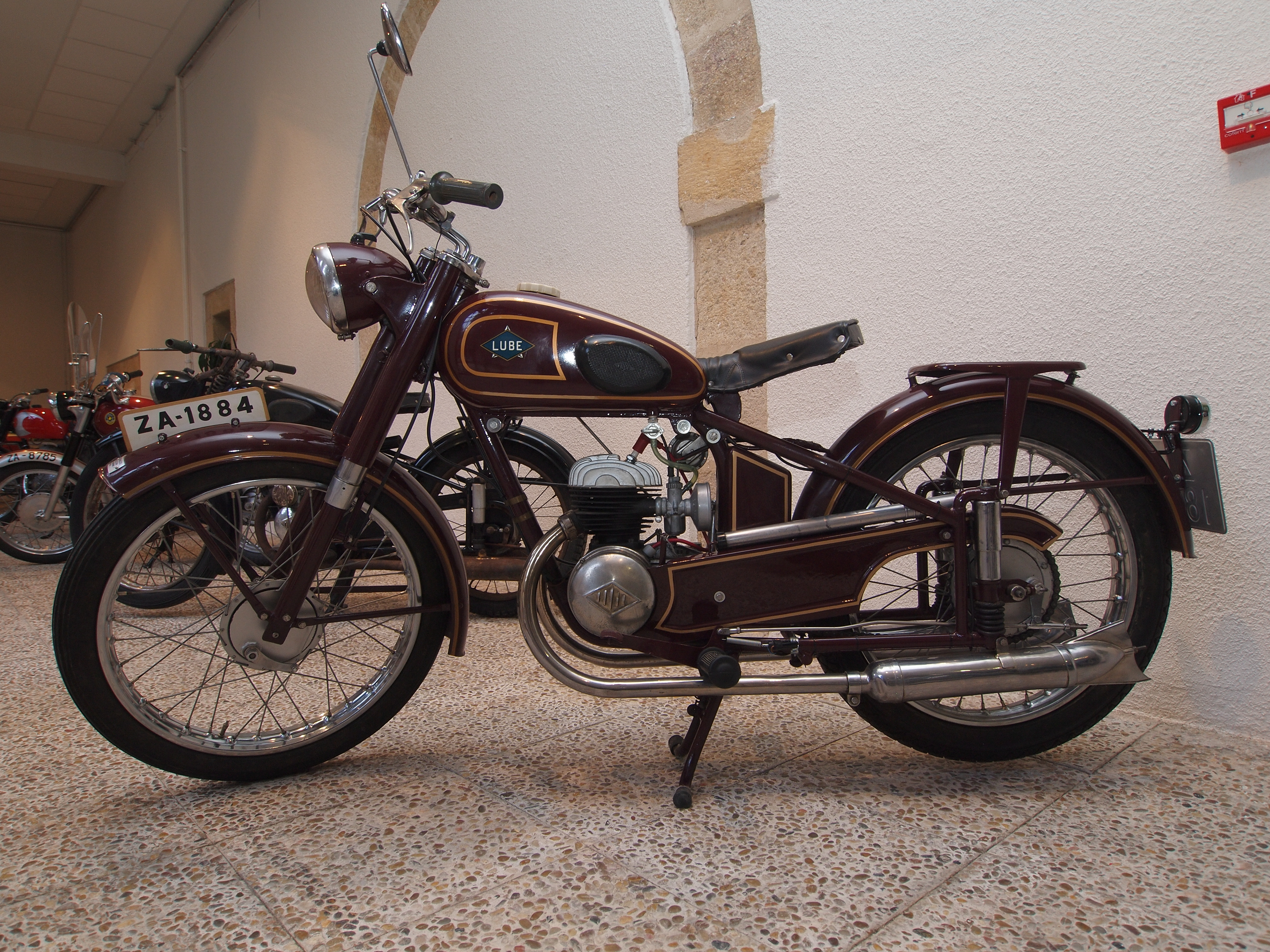 Lube 99 motorcycle (1955) at exhibition in the II Show "Toda una Vida en Moto" of the Asociacion Motociclista Zamorana (Zamora, Spain, February 2012)